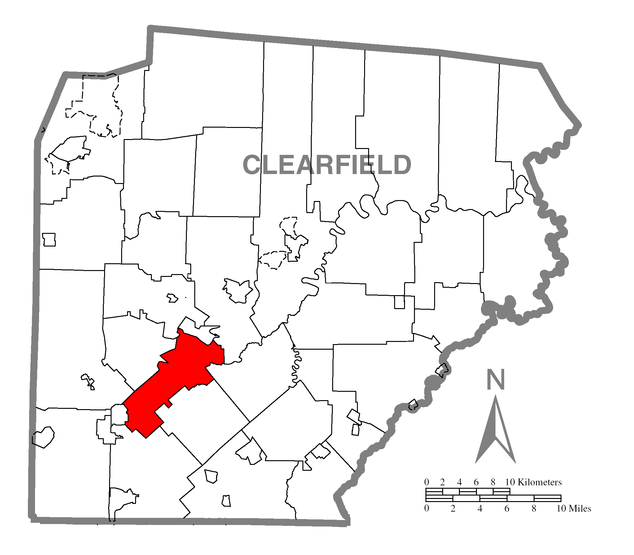 A map of Clearfield County showing Ferguson Township, Pennsylvania (alternate) highlighted on the map.